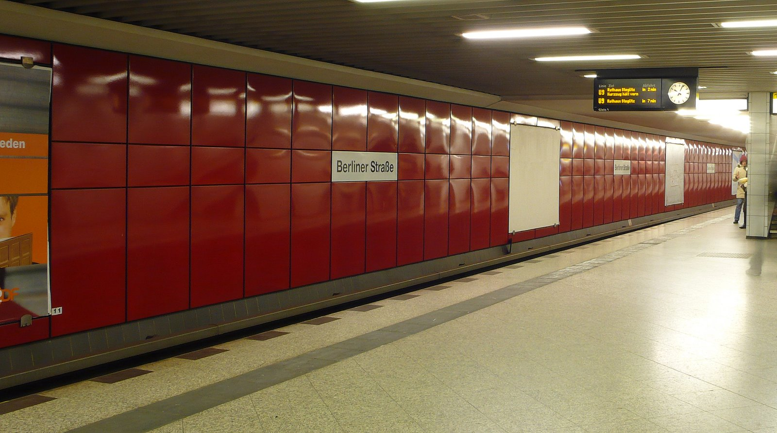 Subway U9 station Berl.Strasse